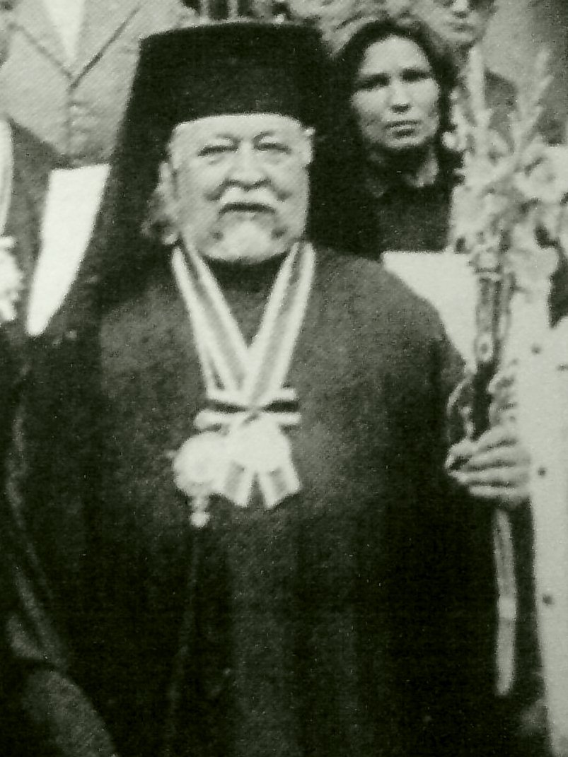 Archbishop John of Finland during his visit to Poland